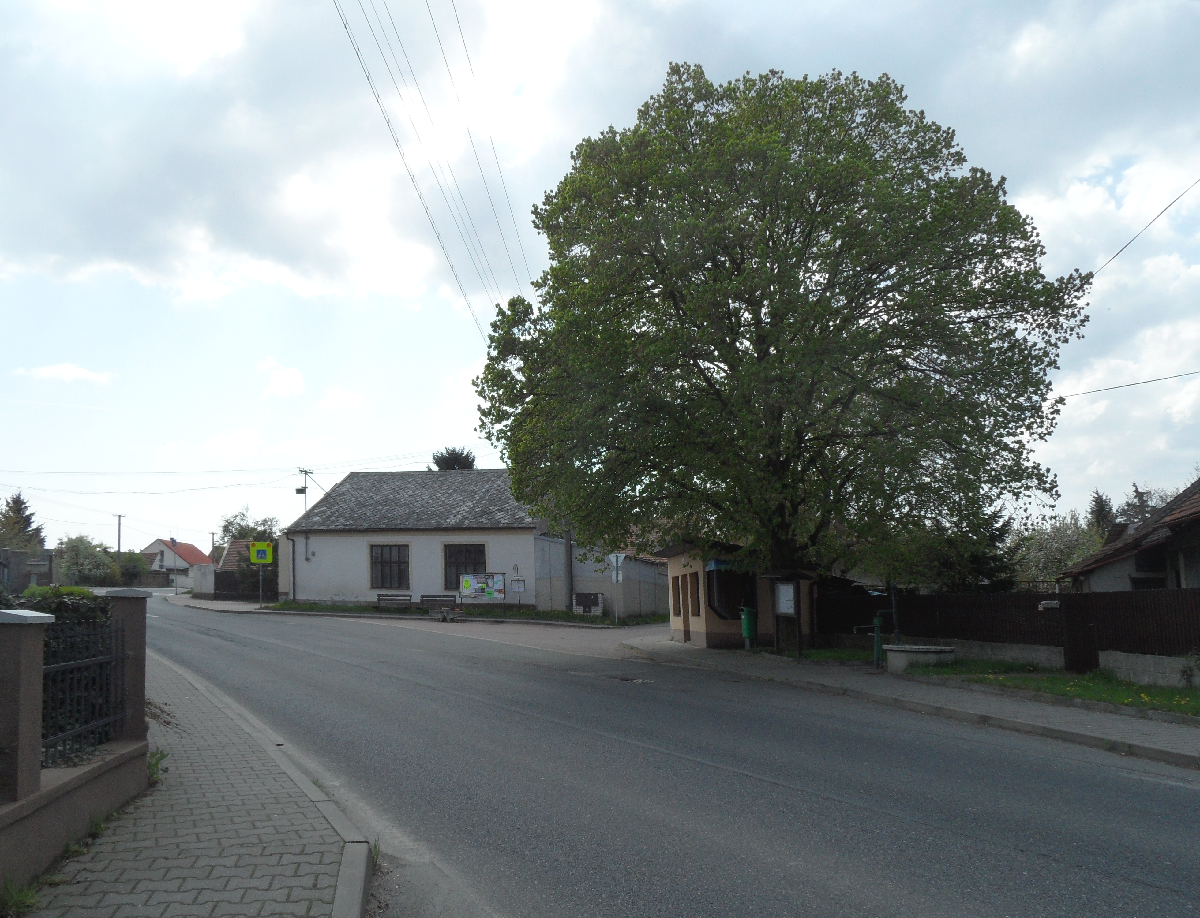 Kbílek C. The Centre of Village with Bus Stop, Kolín District, the Czech Republic.